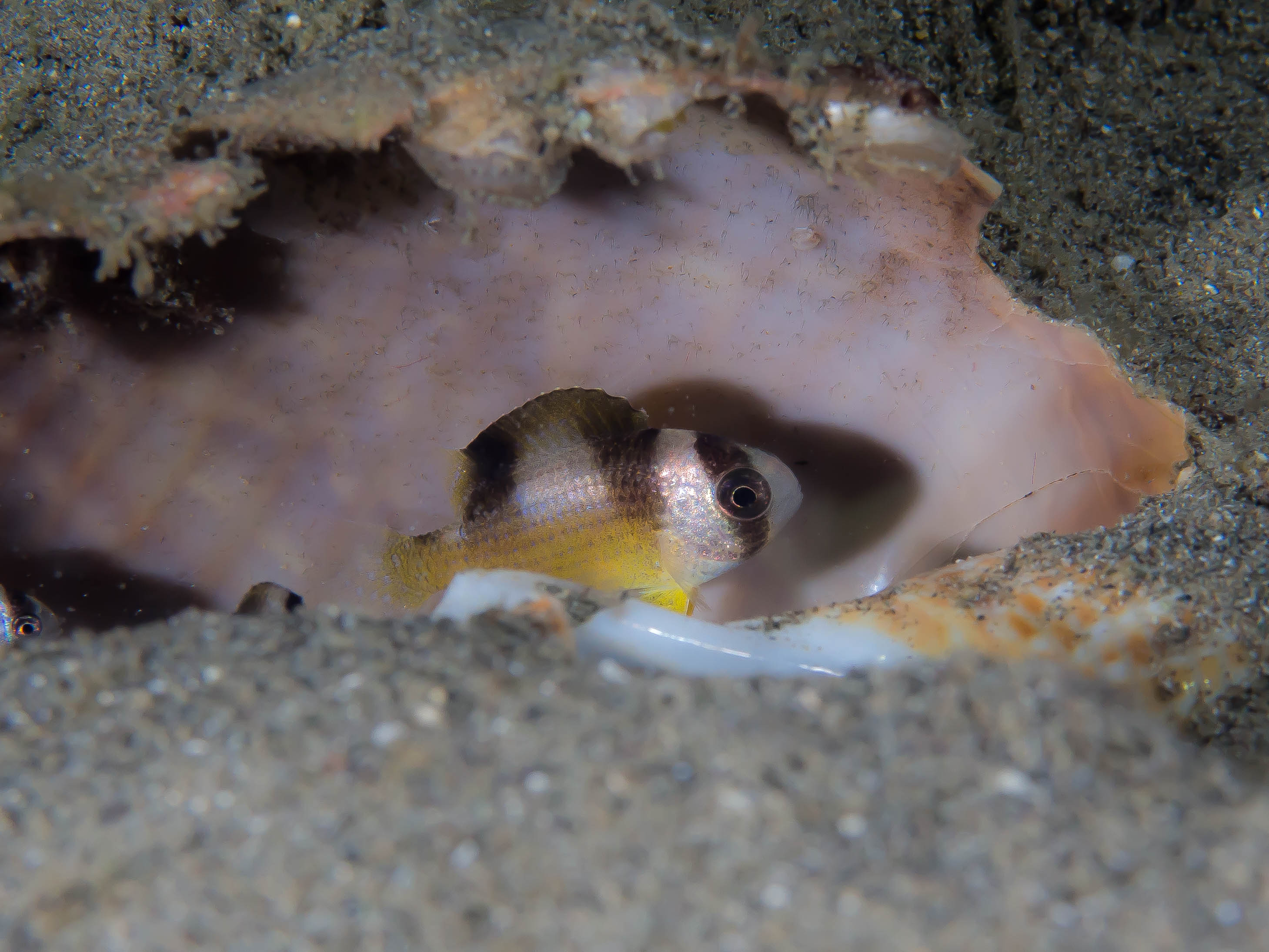 Halmahera, Indonesia - Black-banded demoiselle (Amblypomacentrus breviceps)